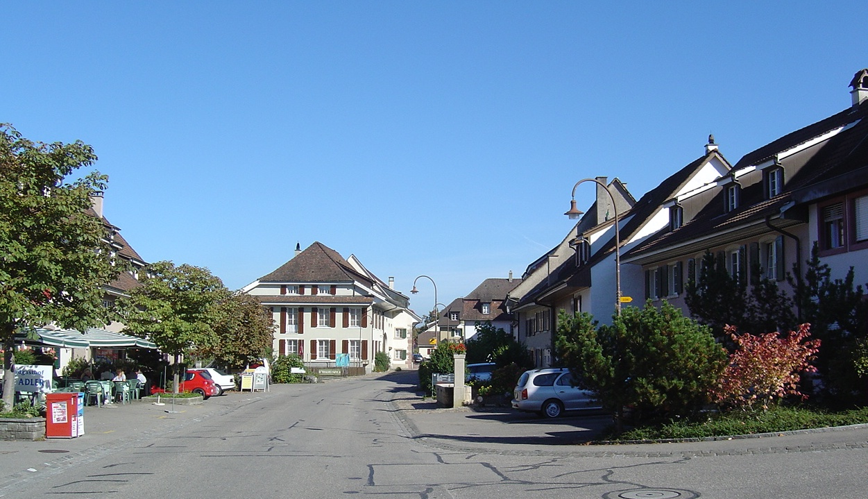 Village centre of Kaiseraugst